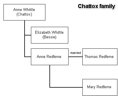 The Chattox Family involved in the Pendle Witch trials of 1612